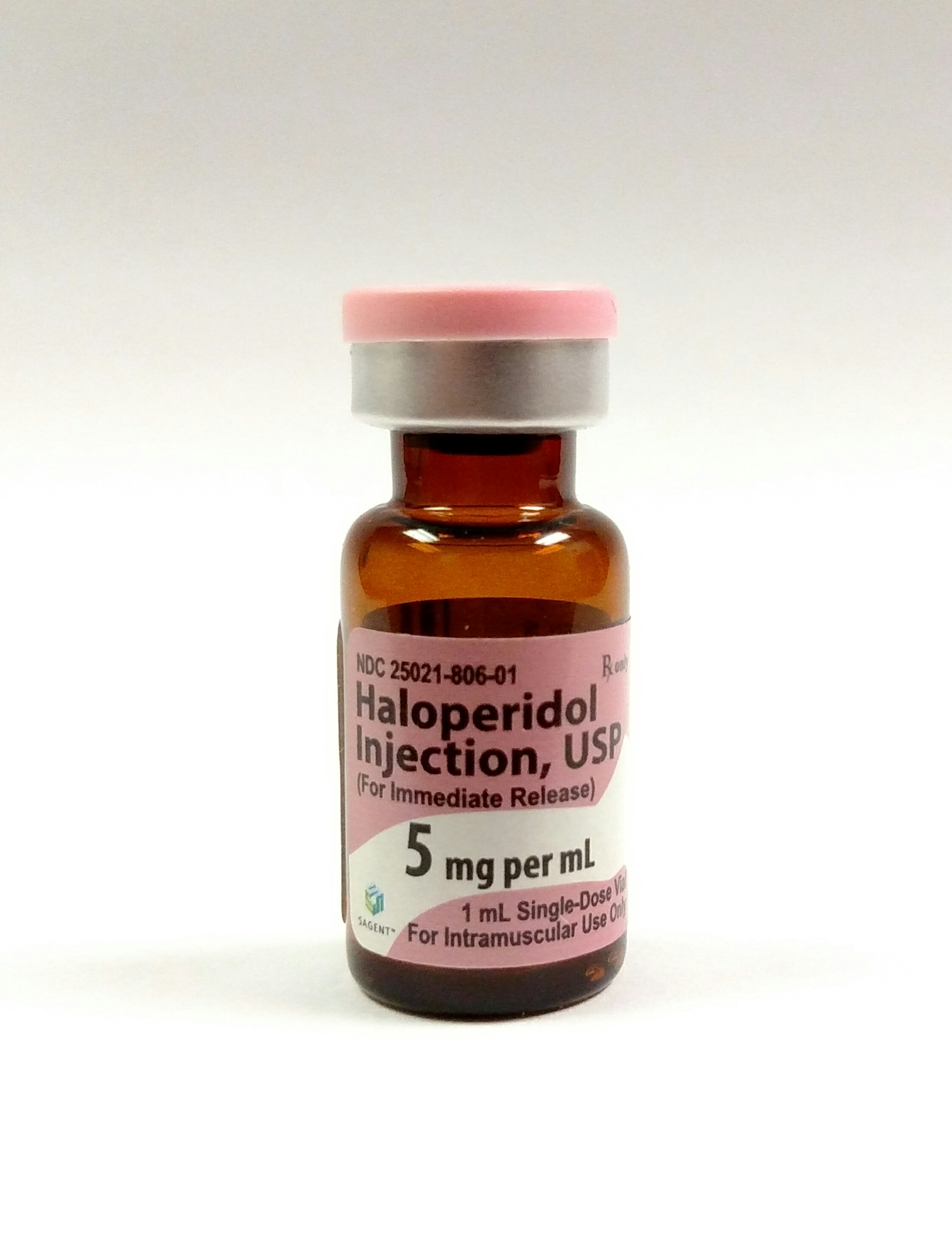 Haloperidol preparation, single dose vial for intramuscular administration.